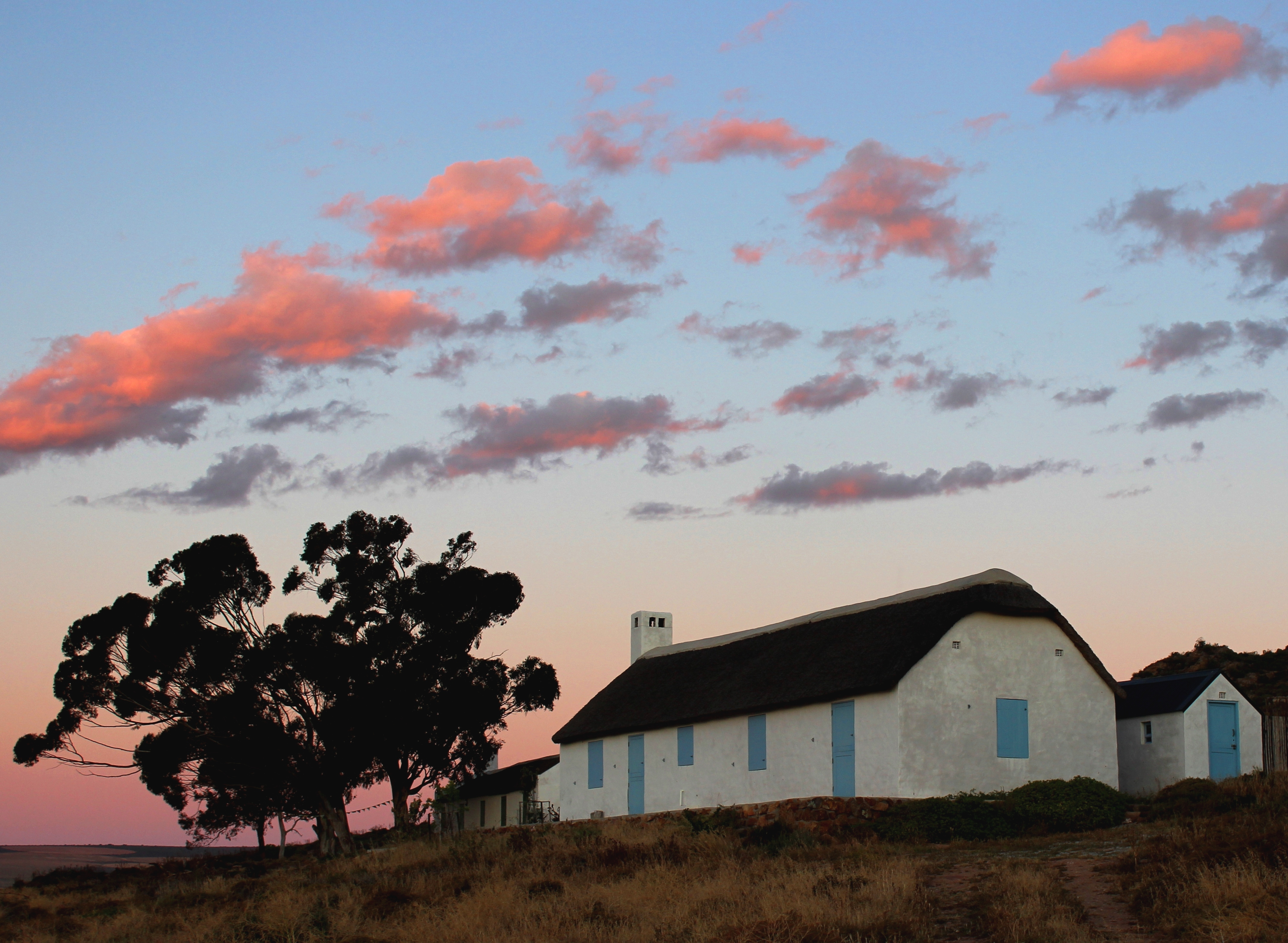 Verloren Vlei Heritage Village, Elands Bay, Western Cape, South Africa. Vernacular 'langhuis' (long cottage) This media shows a South African Protected Site with SAHRA file reference HM\WEST COAST\CEDERBERG\VELORNEVLEI HERITAGE VILLAGE.